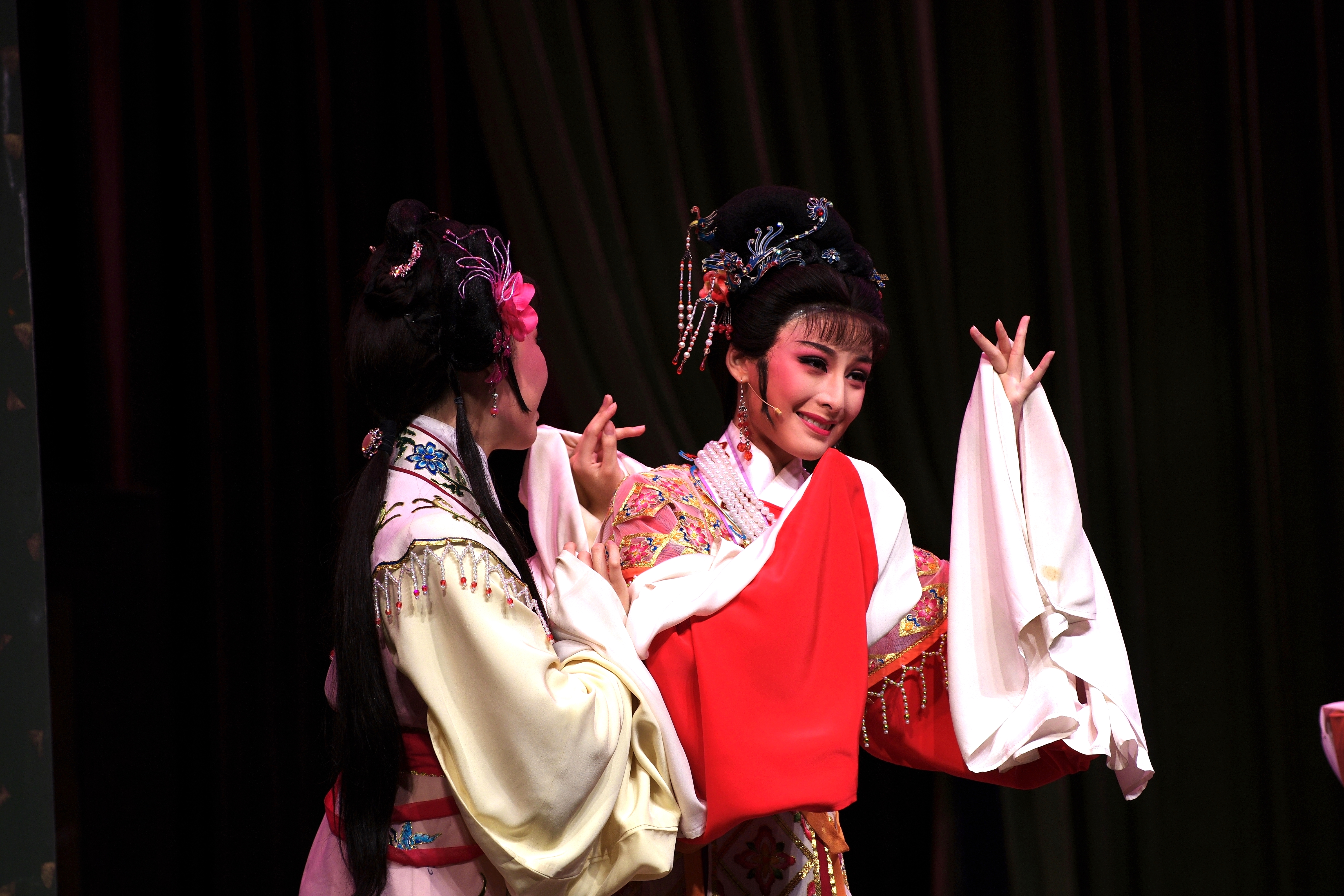 A Shaoxing opera performance of Romance of the Western Chamber in Tianchan Theatre, Shanghai, China. The actresses are students at Shanghai Theatre Academy.